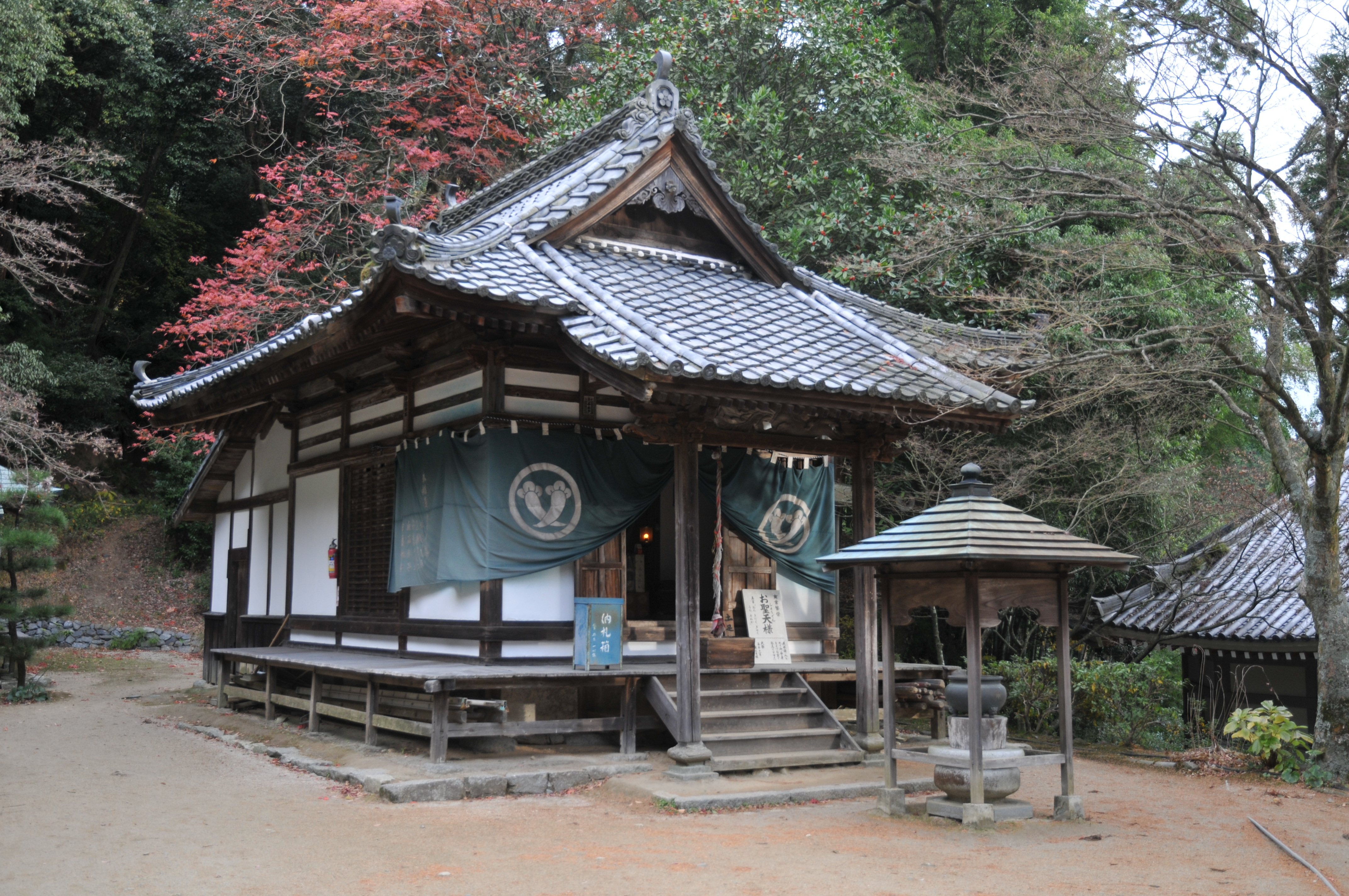 Shōten-dō, Nishiyama Kōryū-ji